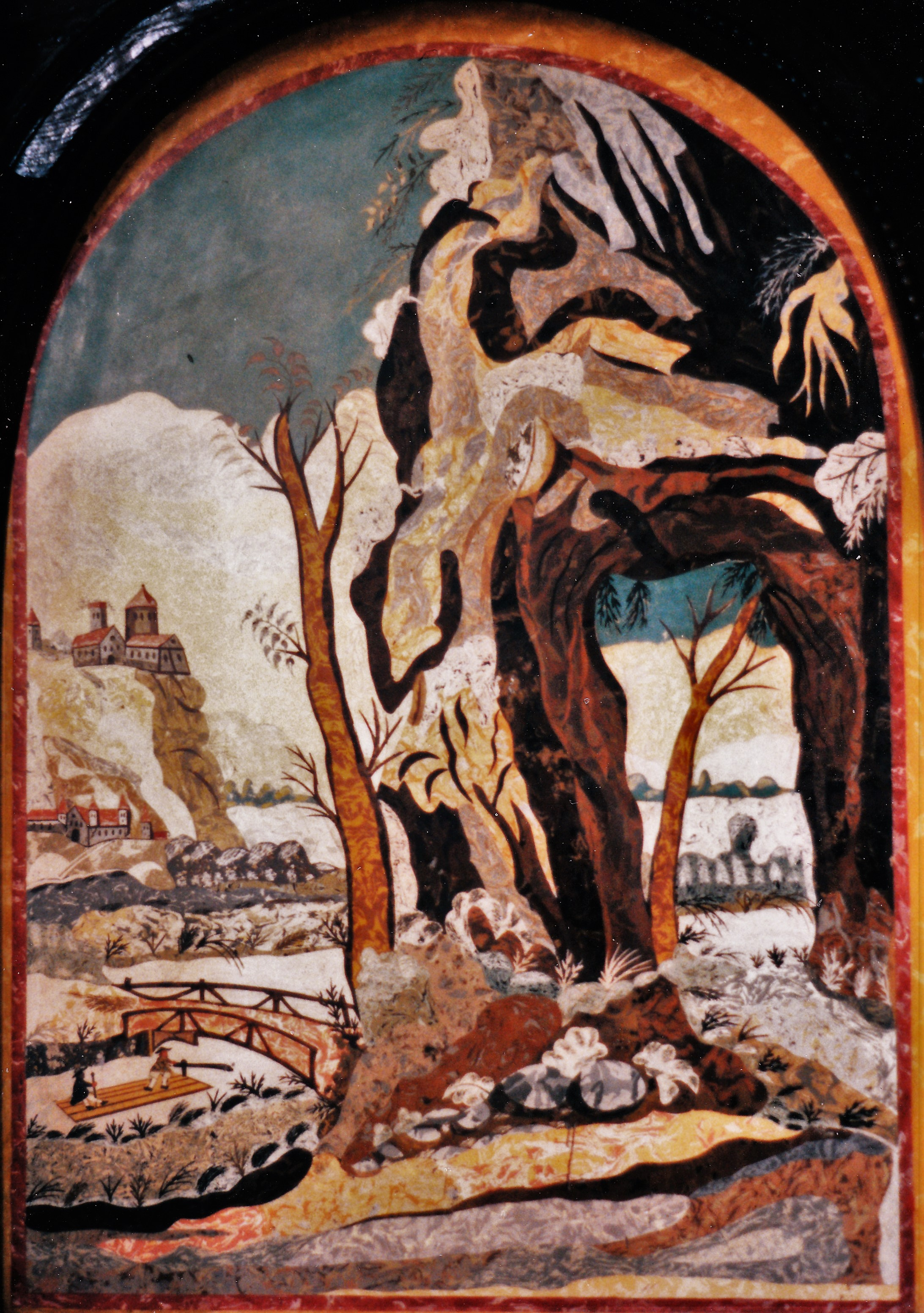 Kempten (Allgäu), St. Lorenz Basilica: Choir stalls with plate by the stuccoer Barbara Fistulator alias Barbara Hackl (1669–1670) ("Scagliola technique")